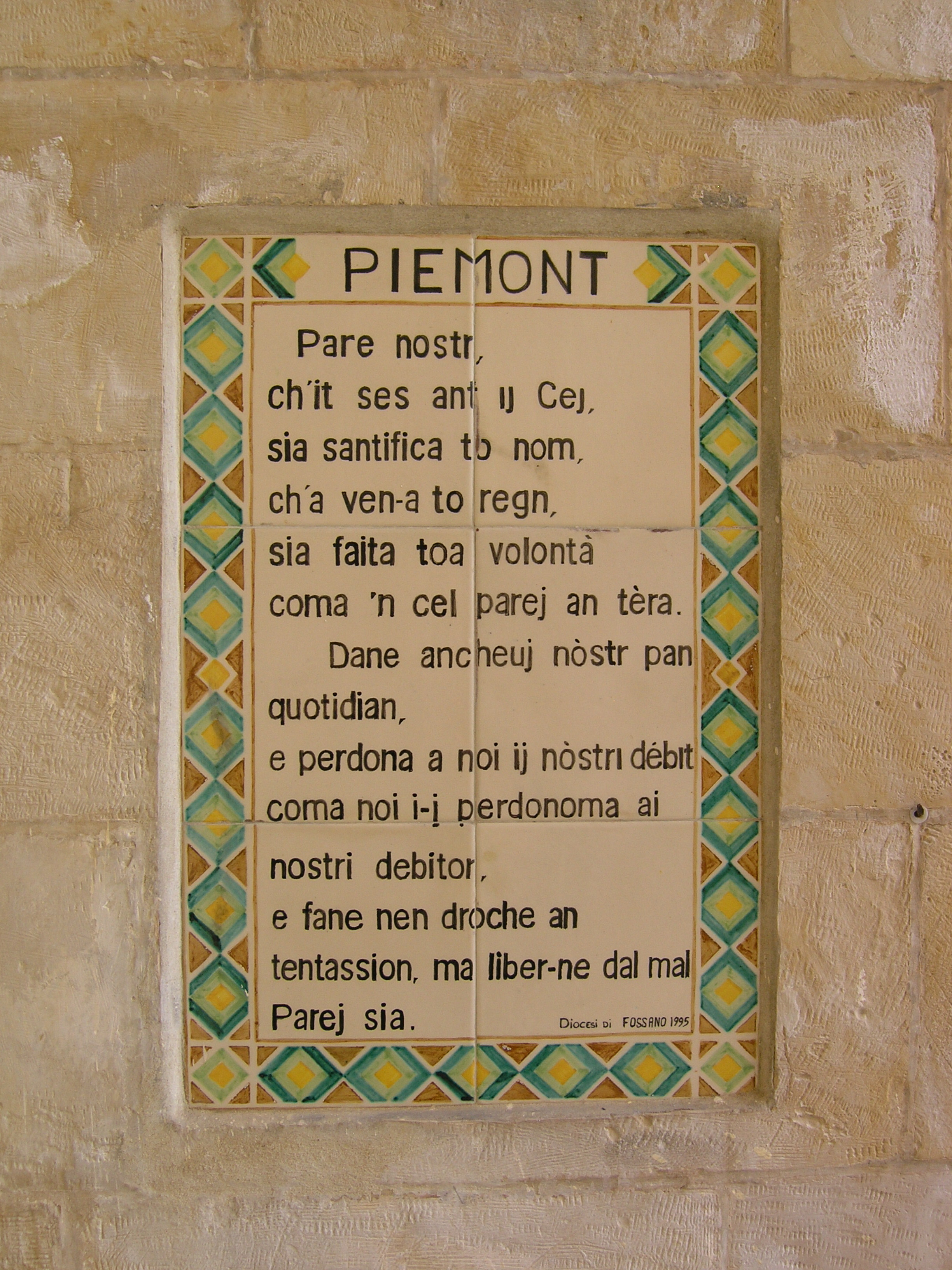 Jerusalem (Israel): Lord's Prayer in piedmontese language, Church of the Pater Noster